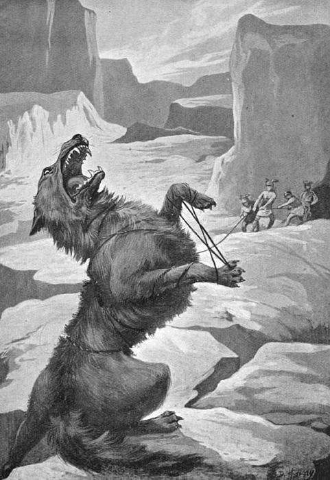 Dorothy Hardy's interpretation of The Binding of Fenris was used by Guerber in Myths of the Norsemen (1909)